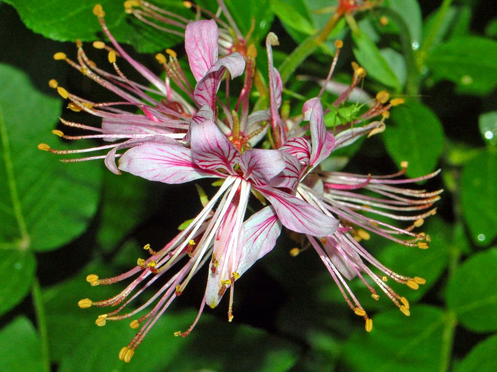 Dictamnus albus - Pratorondanino, Genova, Italy